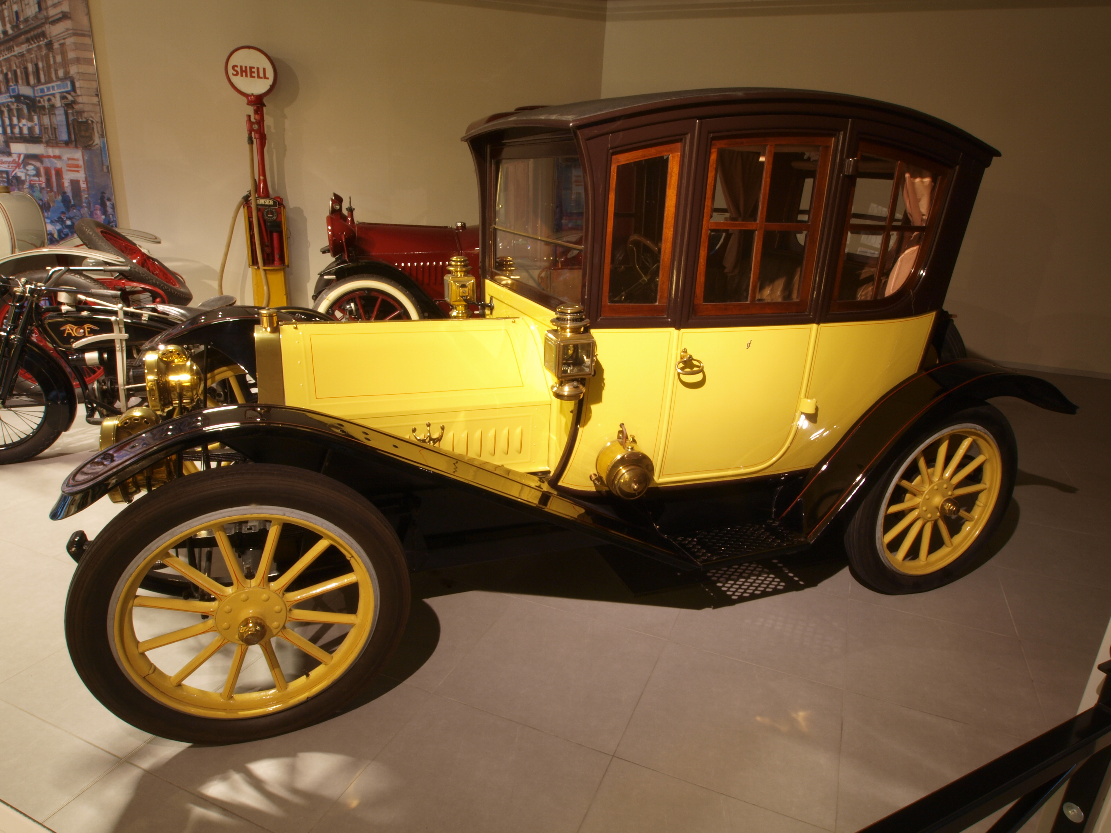 Photographed at the Louwman museum / Louwman Collection, The Netherlands.